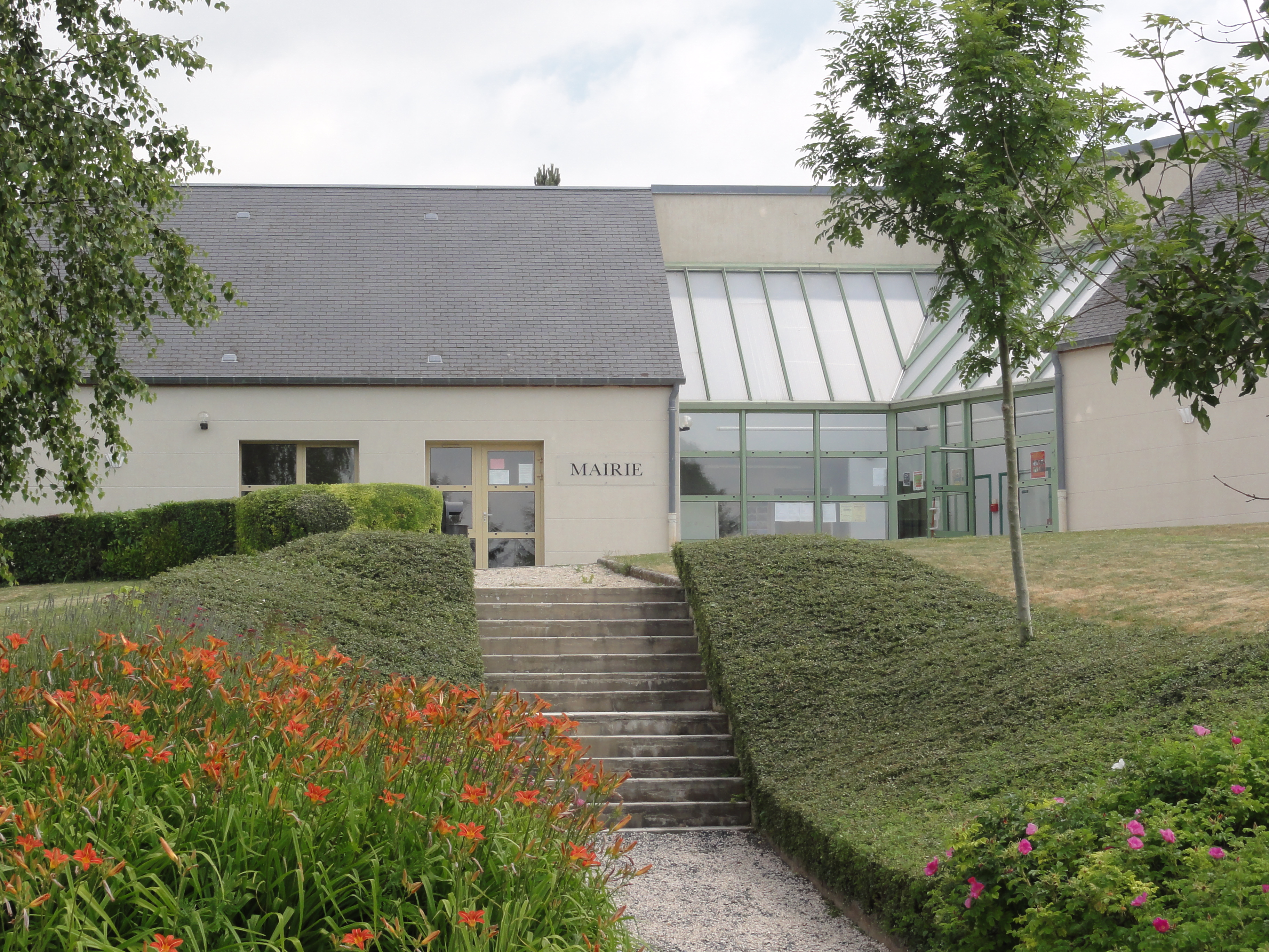 Saint-Pierre-Aigle (Aisne) mairie